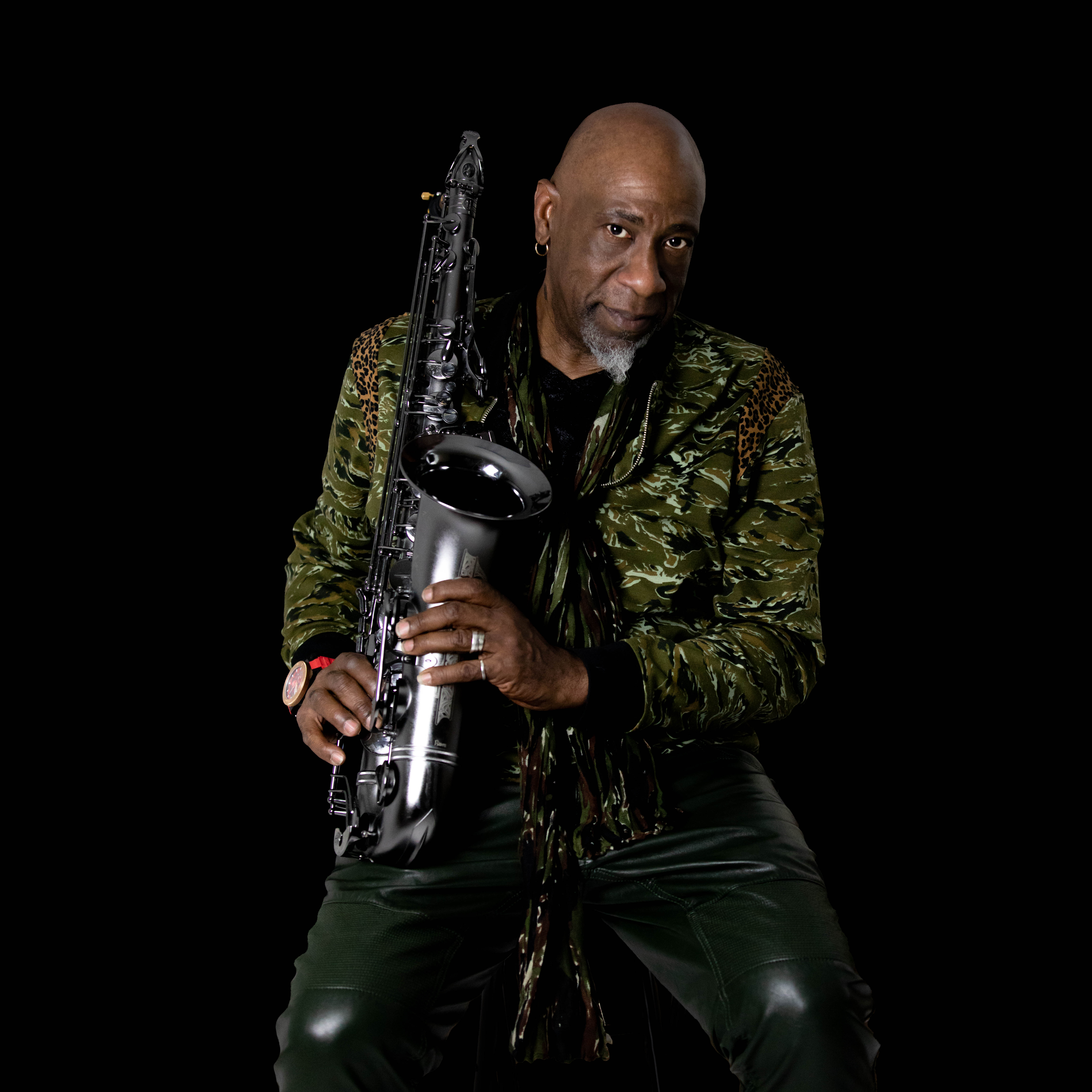 Dave McMurray. Detroit Jazz musician and producer.